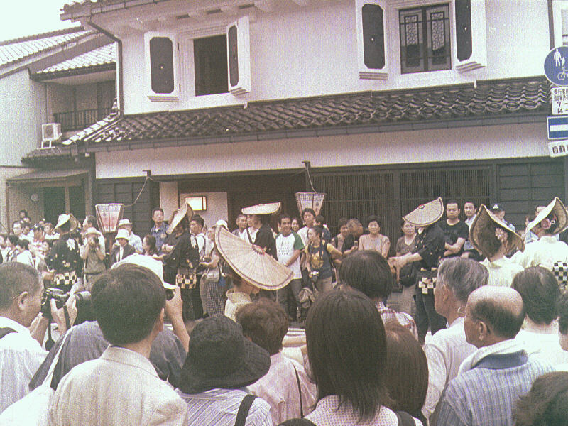 A picture of the autumn festival, called "Owara Kaze-no-Bon" in Japan. 毎年9/1～9/3に富山県富山市八尾町で行われる祭り ”おわら 風の盆”の写真 ：東町通りの中程にある踊り場での輪踊り（東町支部） Ricoh CADDY使用